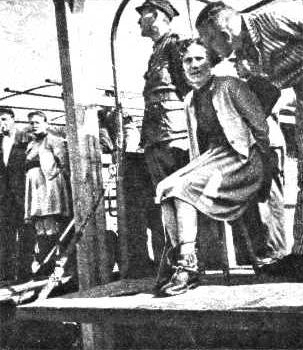 Execution of concentration camp guards at Biskupia Gorka: Klaff, Becker (left to right) before execution